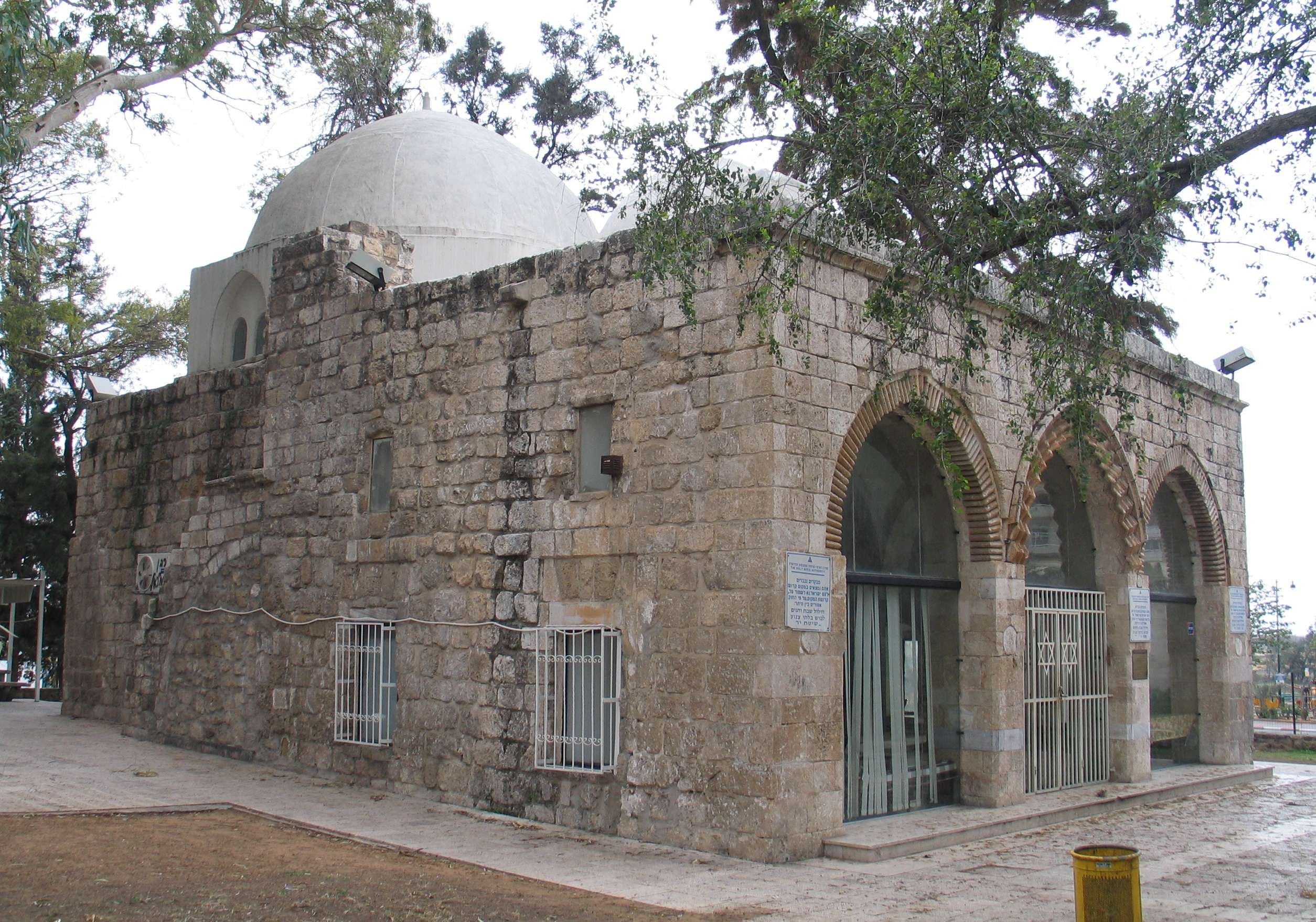 Rabbi Gamliel's tomb (Mausoleum of Abu Huraira), Yavne.